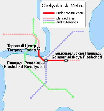 Map of the Chelyabinsk Metro, English transcription and labeling